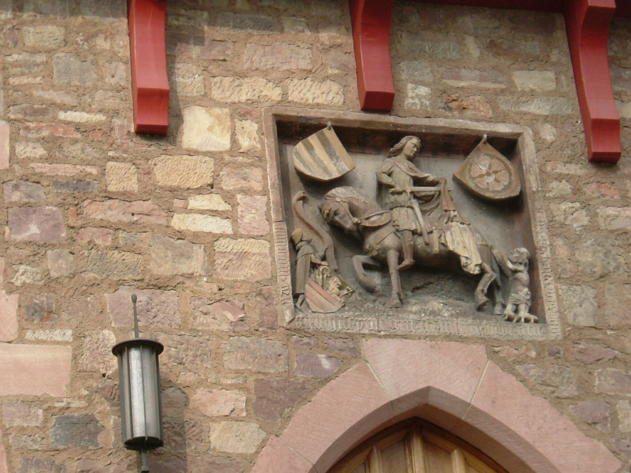 Fritzlar, Germany. Town hall. Author: Peter Kaboldy, 03. 2007.